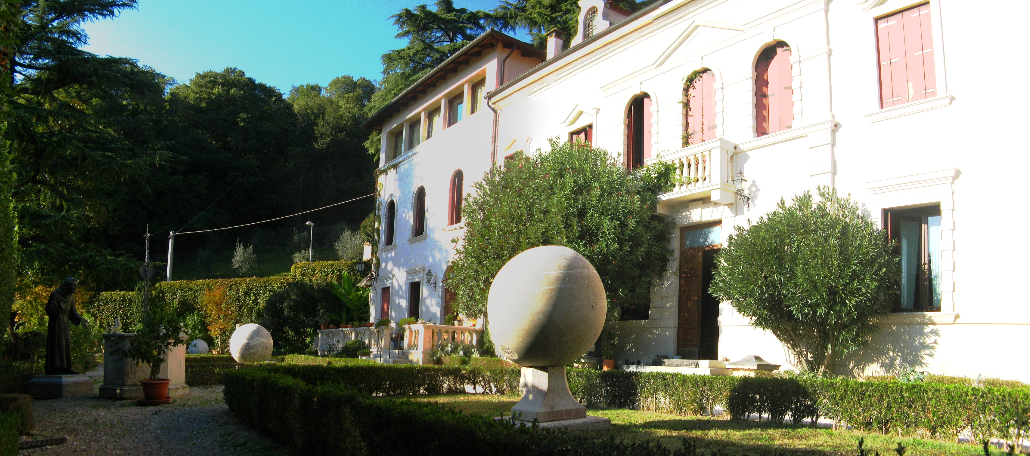 View on Villa Veronese, Brendola (Italy).